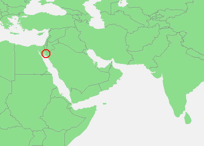 Red Sea